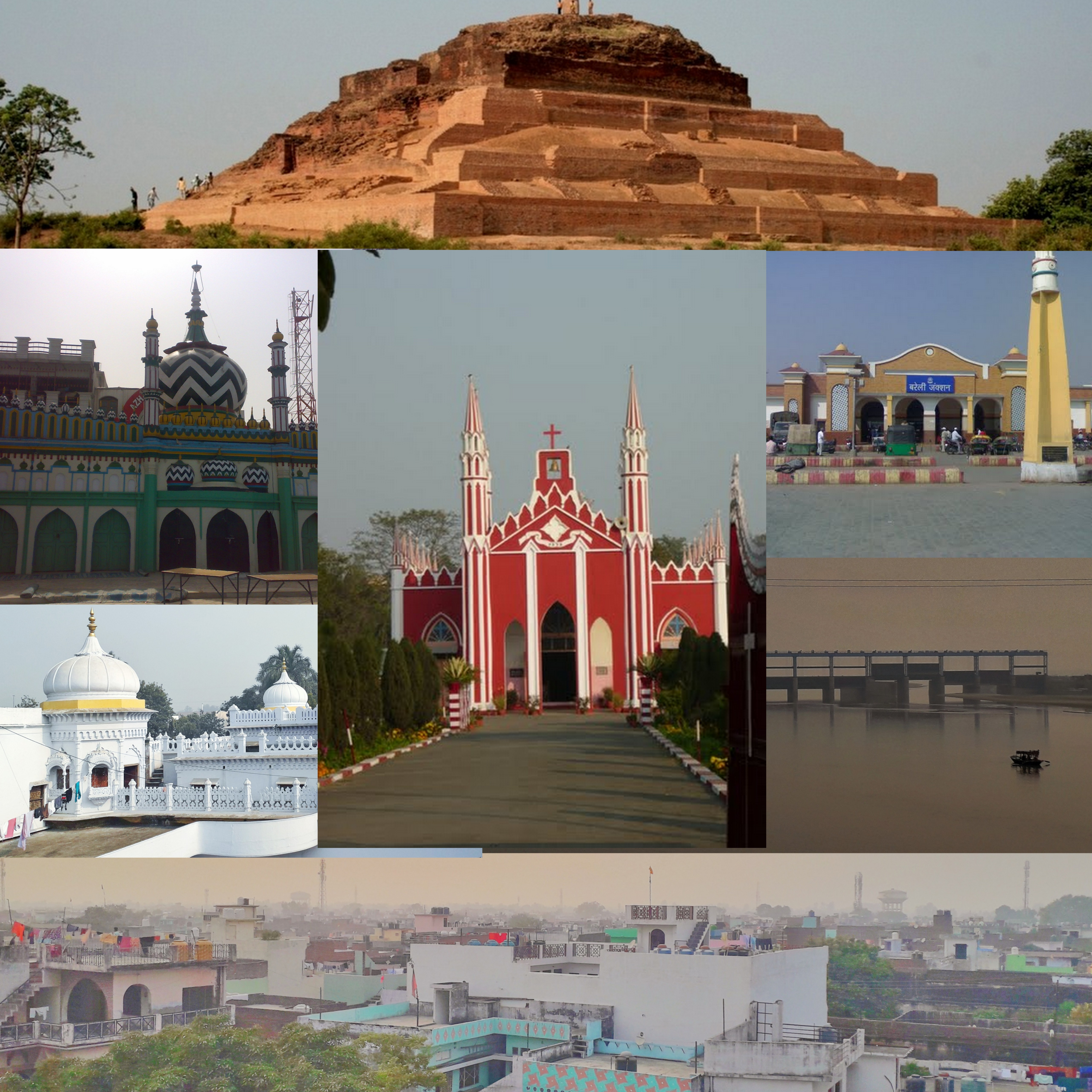 This file is a montage made from existing files available on Commons. The files used areː File:Ahichchhatra Fort Temple Bareilly.jpg by Suneet87 File:Bareilly Skyline.jpg by ArmouredCyborg File:Biabani Kothi.jpg by ArmouredCyborg File:Blyrlw.jpg by Manojrajput1983 File:Churchbly.jpg by Manojrajput1983 File:Ramganga, Bareilly.jpg by ArmouredCyborg File:The Blessed Shrine of Alahazrat Imame Ahle Sunnat Imam Ahmad Raza - panoramio (4).jpg by Sunni Person